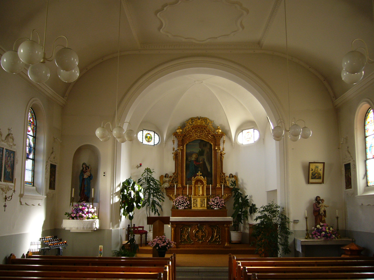 Interior of the Catholic chapell in Freienwil, canton of Aargau, Switzerland. Picture taken by Peter Berger, October 7, 2006.